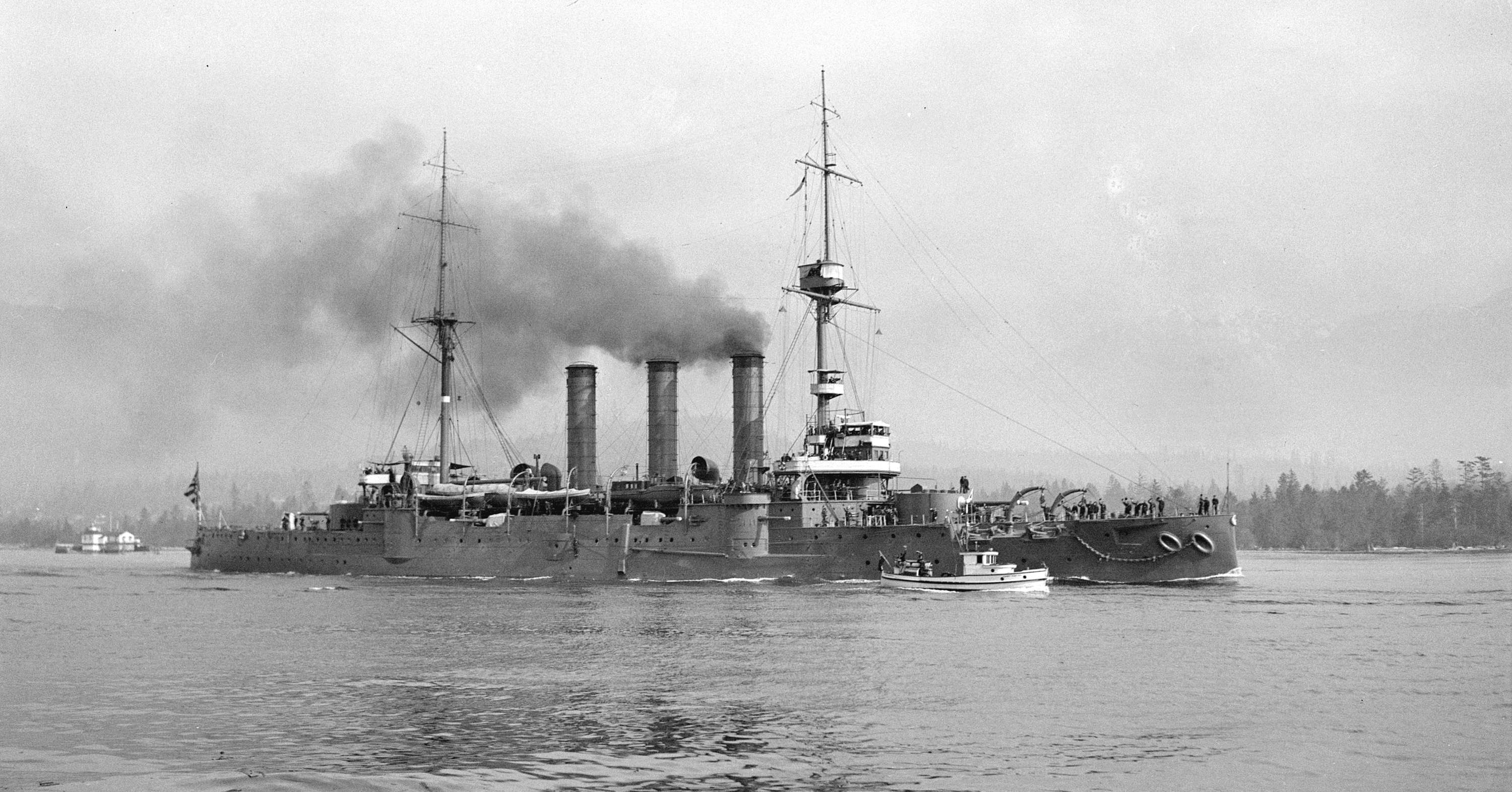 Japanese cruiser Iwate at Vancouver.